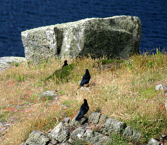 Choughs at The Chasms.